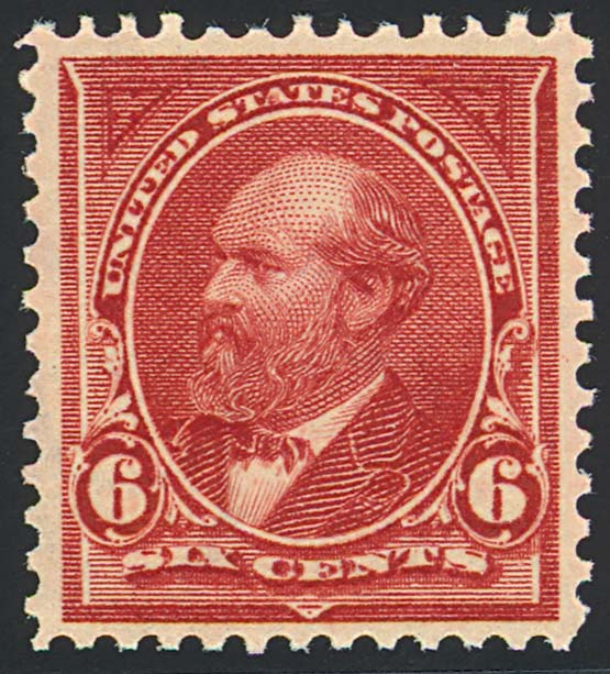 US Postage Stamp: James Garfield, Issue of 1898, 5c